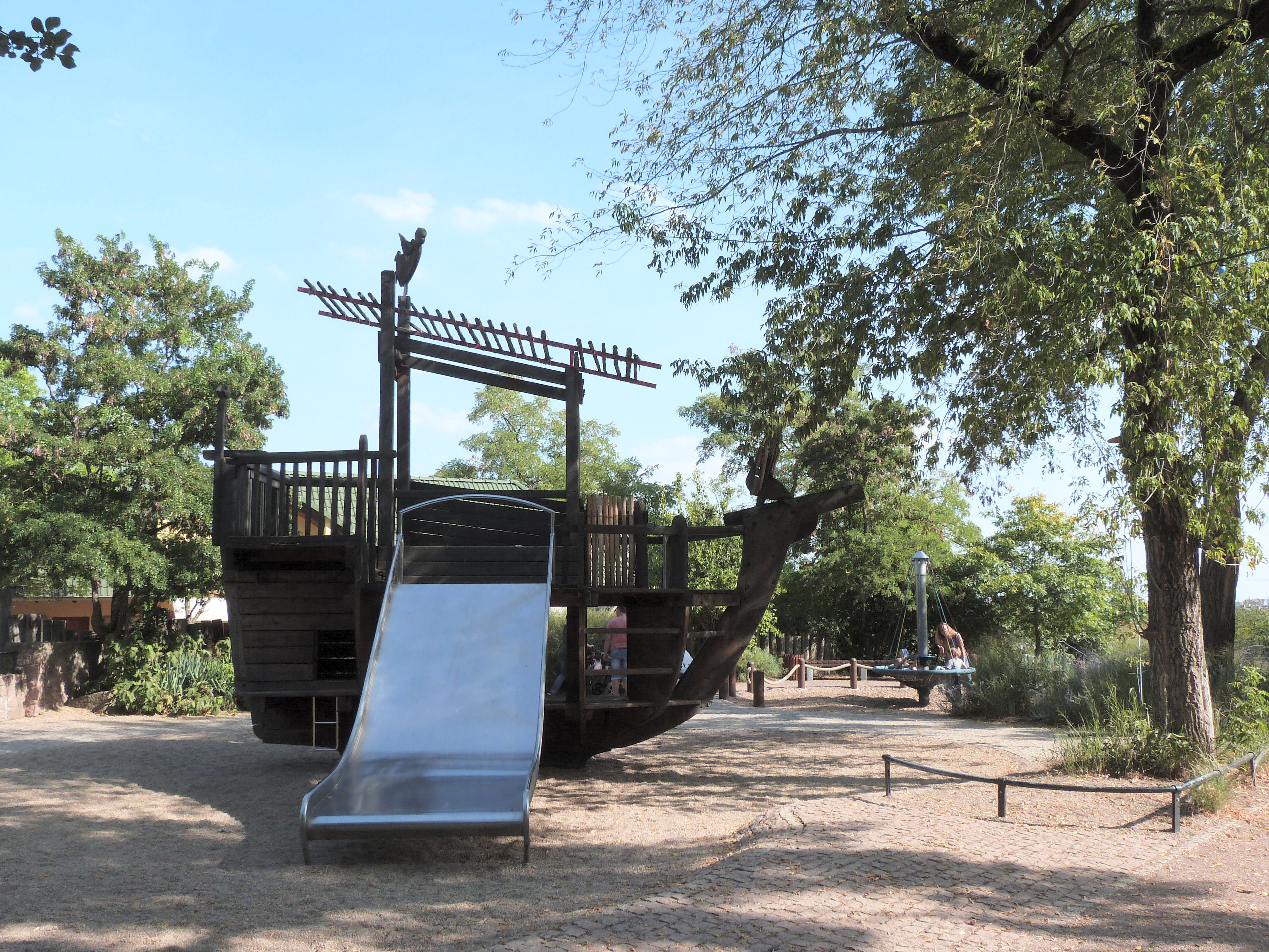 Playground in Zoo Halle (Saale)